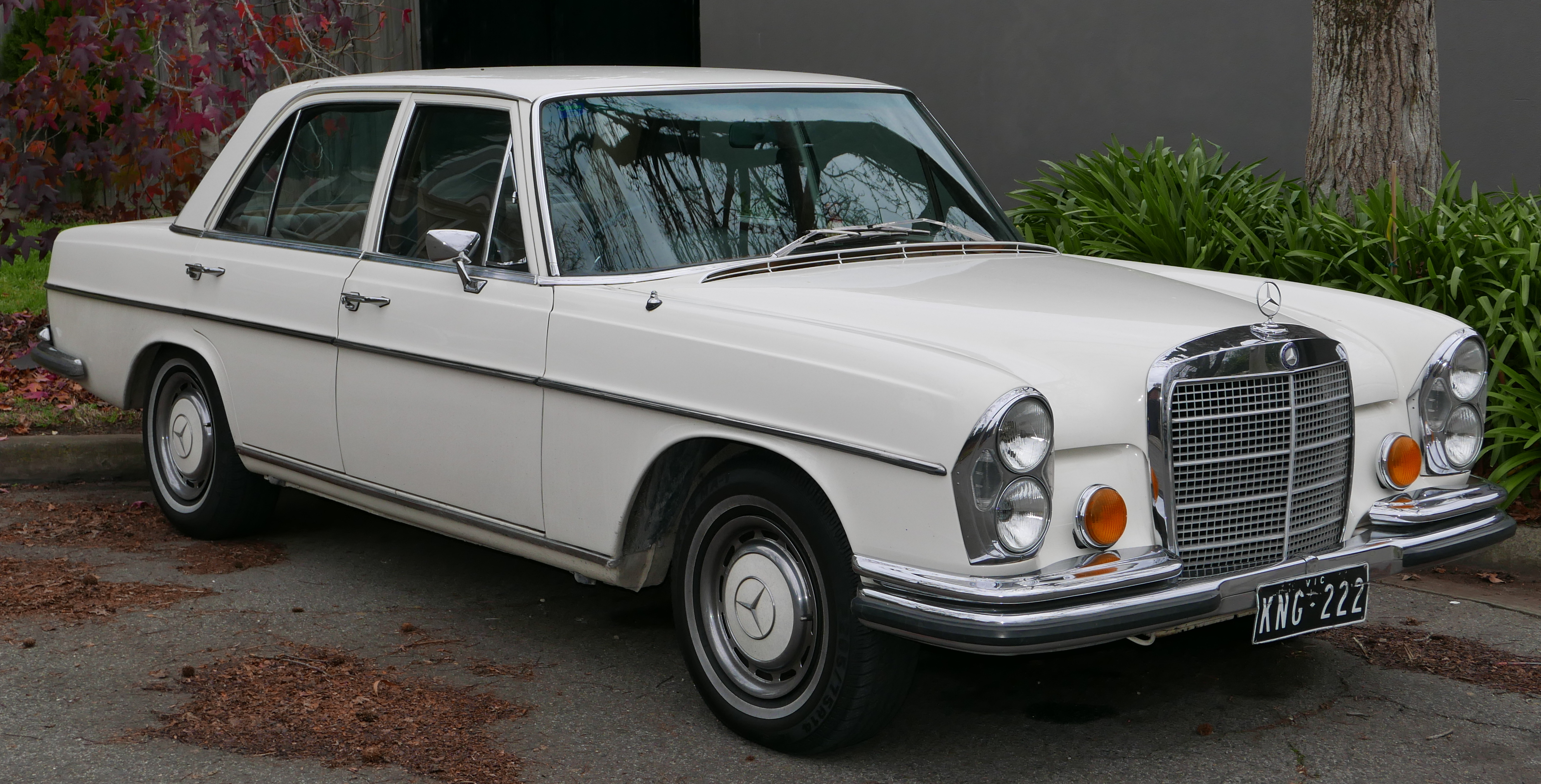 1970 Mercedes-Benz 280 SE (W 108) sedan. Photographed in Kew, Victoria, Australia. Vehicle registration enquiry results Jurisdiction Victoria Registration KNG222 Chassis code Not available Engine code 13098022038327 Compliance date Not available Year of manufacture 1970